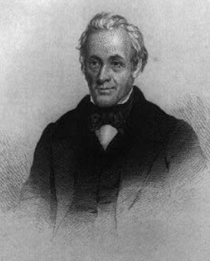 In 1855, as a lawyer, Jameson led the defense of a slave named Celia in what became an influential trial in the history of slavery. He based his unsuccessful "defense on the premise that under Missouri law Celia possessed the same right to use deadly force to defend her honor as did white women." In his later years Jameson was a farmer, and was ordained as a minister in the Christian Church.